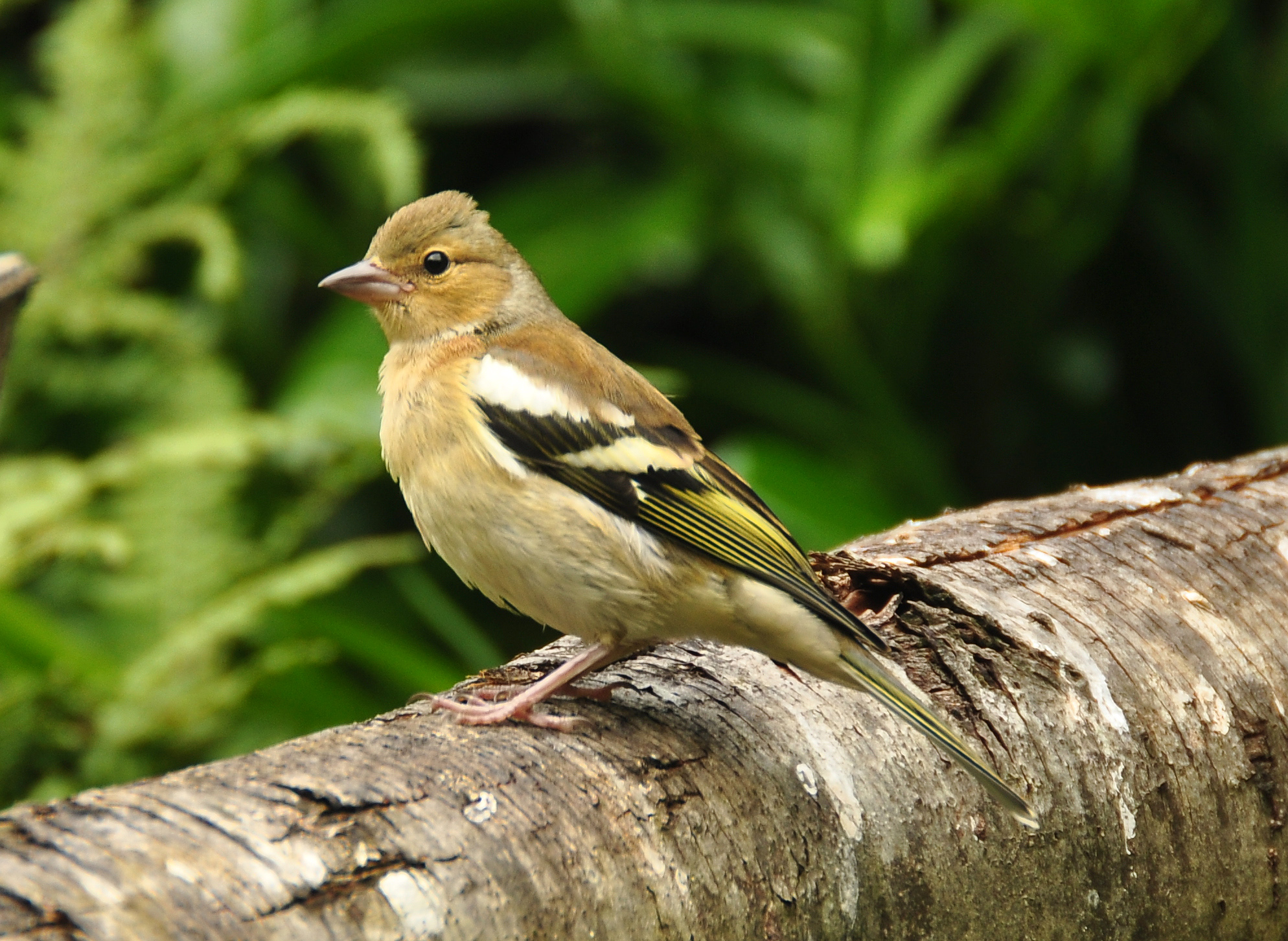 A female chaffinch (Fringilla coelebs) at Watersmeet House, near Lynmouth on Exmoor.